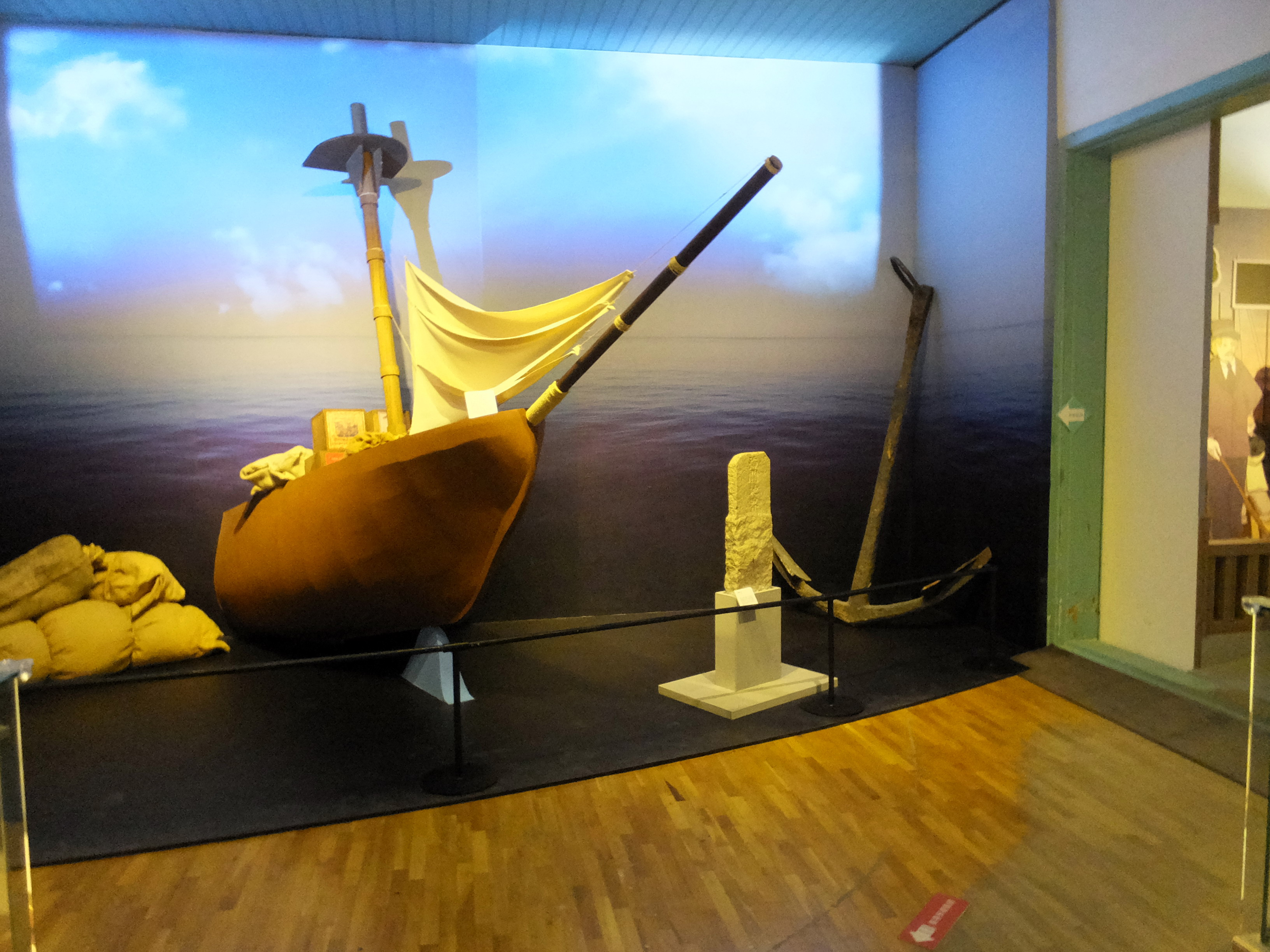 Old Tait & Co. Merchant House 德記洋行